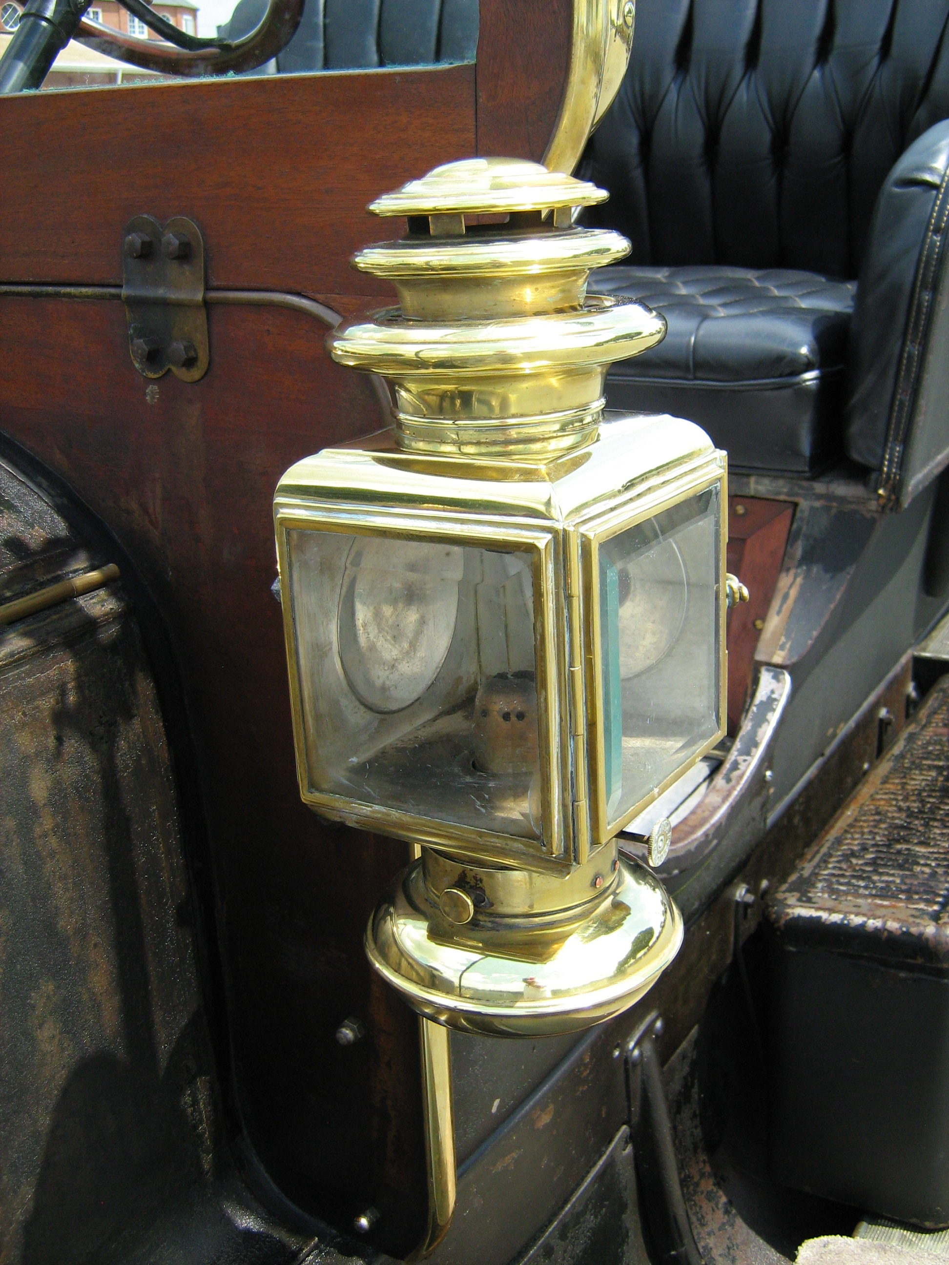 Detail of a light on a 1909 Rambler model 44 touring car made by Thomas Jeffery & Company. This was the first automobile that came with a spare wheel and tire. Picture taken at the 2010 Richmond Region AACA show (Virginia).